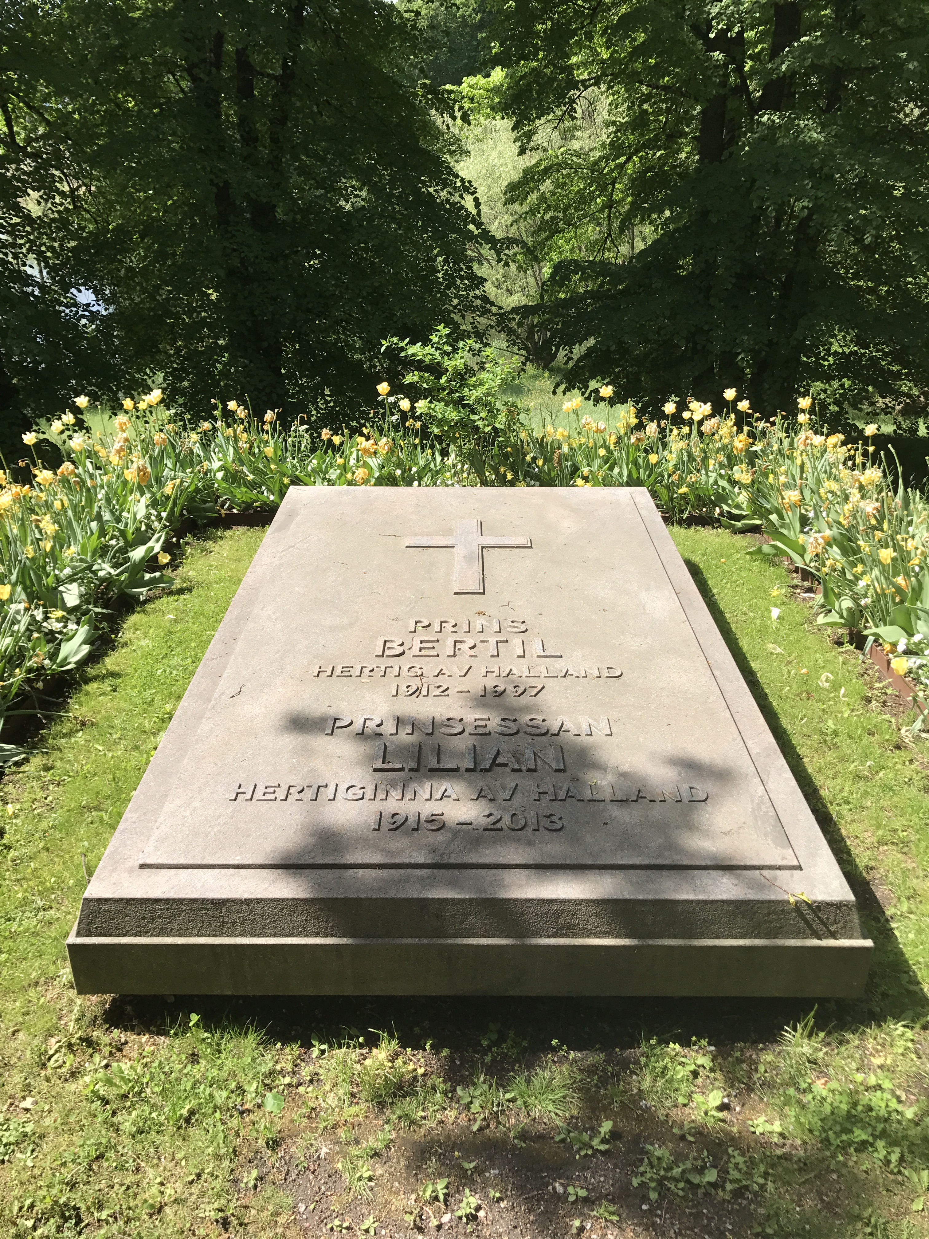 The grave of Princess Lilian and Prince Bertil of SwedenPlace: Royal Cemetery, Karlsborg Island, Solna, Sweden